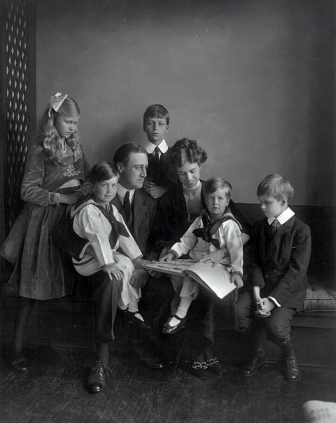 Taken in Washington, D.C., on June 12, 1919, the Roosevelt family is looking through a scrapbook. Pictured are: Franklin, wife Eleanor, seated on a sofa. Franklin, Jr. (born 1914) is seated on his father's lap while John (born 1916) is on hismother's lap, and James (born 1907), seated on a sofa. Standing behind them are Anna (born 1906), Elliott (born 1910). It was taken while FDR was serving as President Woodrow Wilson's Assistant Secretary of the Navy, five months after Eleanor's uncle, Theodore Roosevelt, died. A year later, at the 1920 Democratic National Convention in San Francisco, Franklin D. Roosevelt received his party's nomination for Vice President because of his successful record in naval affairs during the World War, his popularity, and his family name.